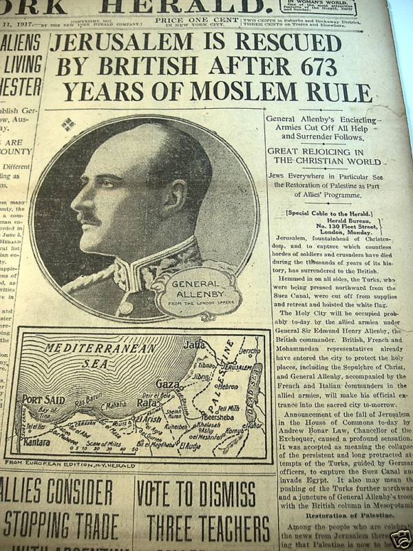 Photo of New York Herald front page on the day, Jerusalem was captured.